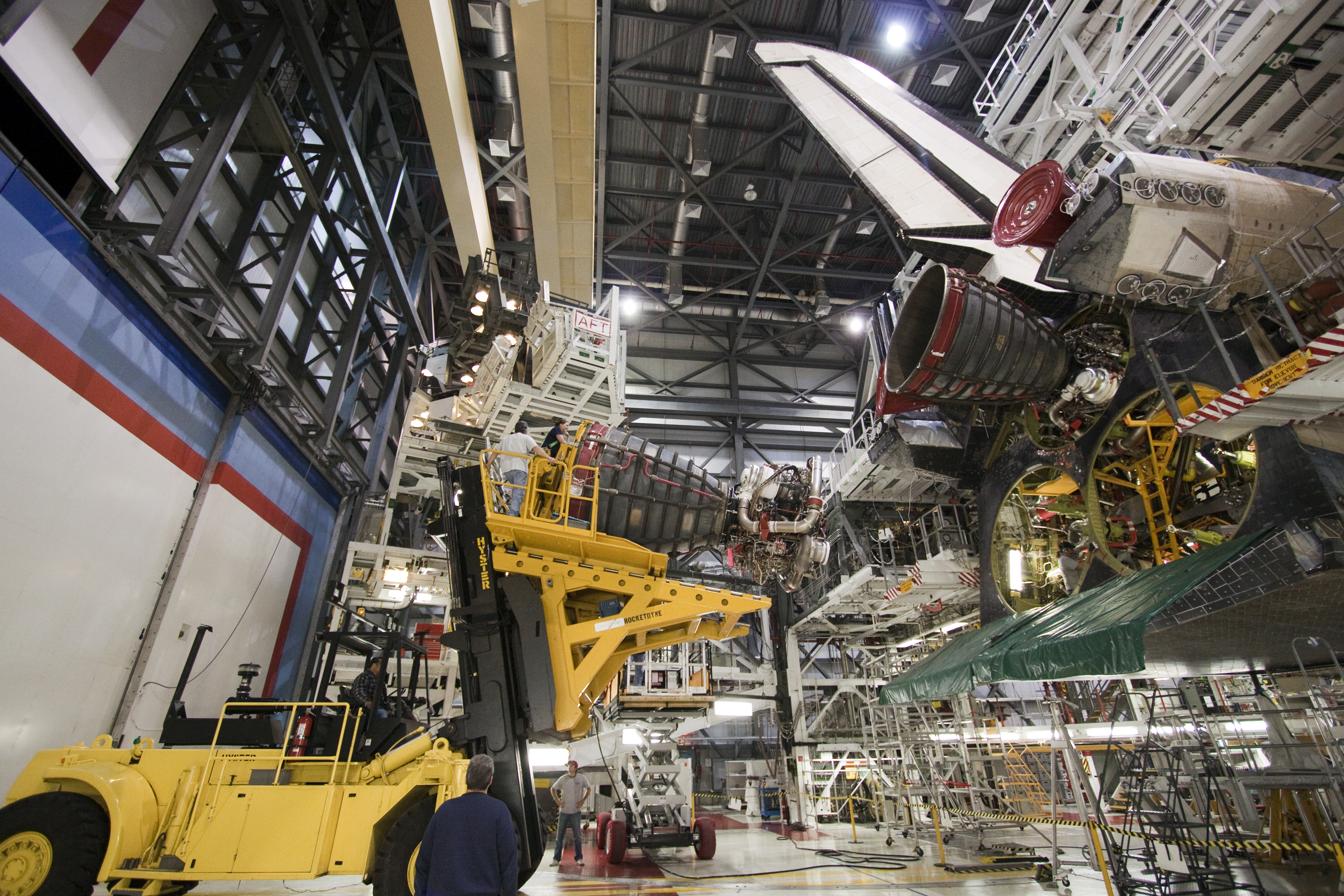 In Orbiter Processing Facility-1 at NASA's Kennedy Space Center in Florida, a space shuttle main engine is positioned to the right height for installation on space shuttle Atlantis for its upcoming STS-132 mission. A main engine is 14 feet long, weighs approximately 7,000 pounds, and is 7.5 feet in diameter at the end of the nozzle. Inspection and maintenance of each of the shuttle's three main engines are an important safety measure and standard procedure between shuttle missions. Atlantis is scheduled to deliver an Integrated Cargo Carrier and Russian-built Mini Research Module to the International Space Station on STS-132. The second in a series of new pressurized components for Russia, the module will be permanently attached to the Zarya module. Three spacewalks are planned to store spare components outside the station, including six spare batteries, a boom assembly for the Ku-band antenna and spares for the Canadian Dextre robotic arm extension. A radiator, airlock and European robotic arm for the Russian Multi-purpose Laboratory Module also are payloads on the flight